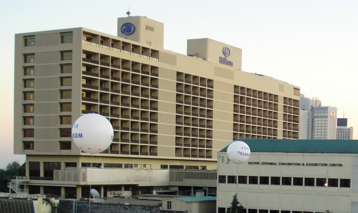 Hotel Hilton Istanbul in Harbiye, İstanbul.